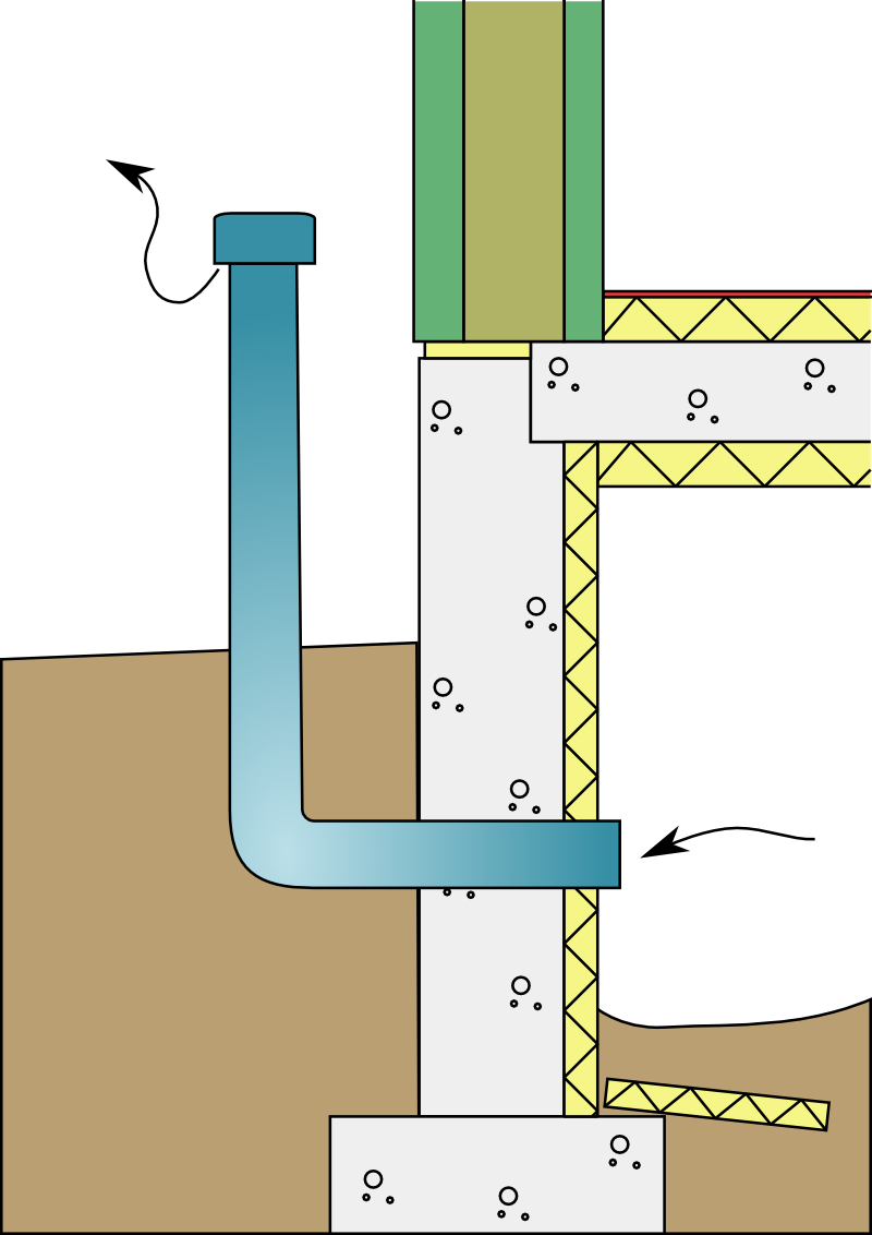 A drawing of typical base floor type.